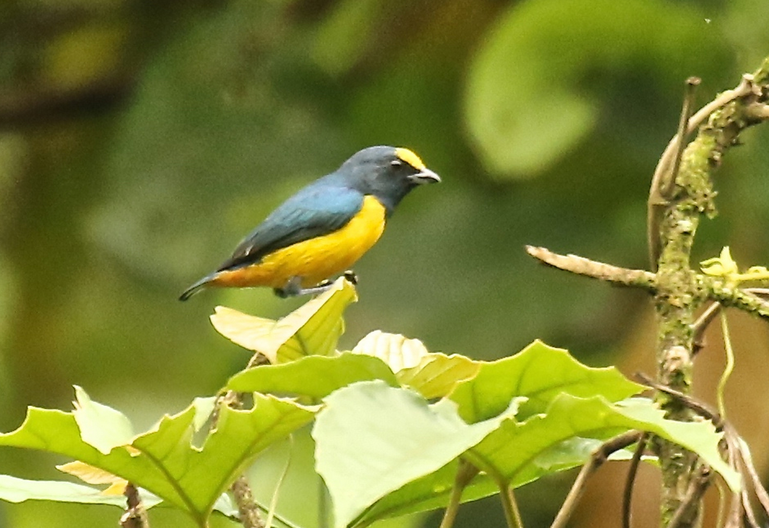 Jordanal - ElValle, Panama